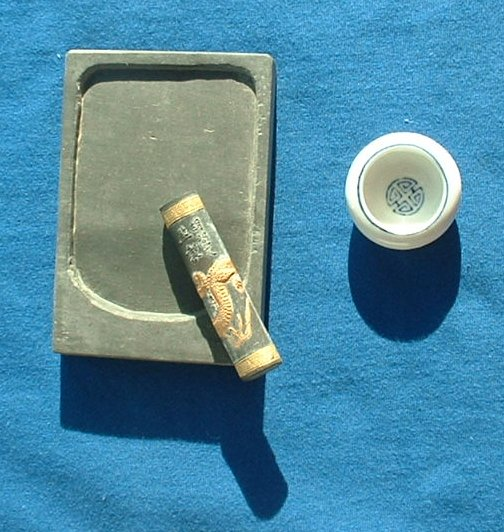 ink slab of Chinese calligraphy